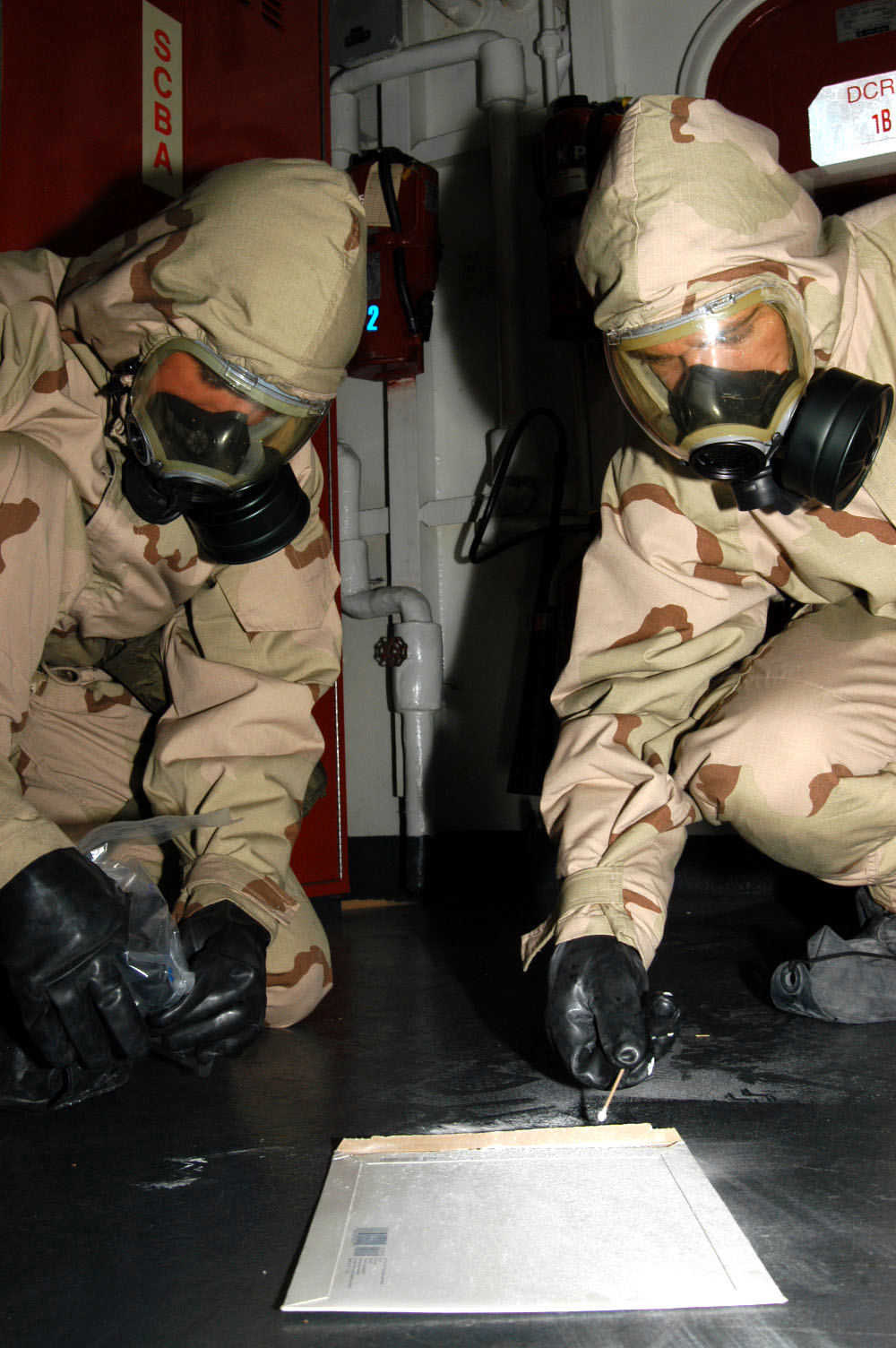 The Arabian Gulf (Mar, 23, 2003) -- Hull Technician Fireman Michael L. McLain assists Damage Controlman 3rd Class Joseph Pierce during a Chemical, Biological, and Radiological (CBR) drill aboard USS Abraham Lincoln (CVN 72), in sampling a suspiscious substance 'found in the mail' using a bio-hazard sampling kit. Lincoln is deployed in support of Operation Iraqi Freedom, the multi-national coalition effort to liberate the Iraqi people, eliminate Iraq's weapons of mass destruction, and end the regime of Saddam Hussein. U.S. Navy photo by Photographer's Mate Airman Jason Frost. (RELEASED)